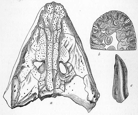 Fig. 132.—a, Upper surface of the skull of Anthracosaurus russelli (sic), one-sixth of the natural size: b, Part of one of the teeth cut across, and highly magnified to show the characteristic labyrinthine structure; c, One of the integumentary shields or scales, one-half of the natural size. Coal-measures, Northumberland. (After Atthey.) NOTE: This specimen is now considered the lectotype of Eogyrinus attheyi.